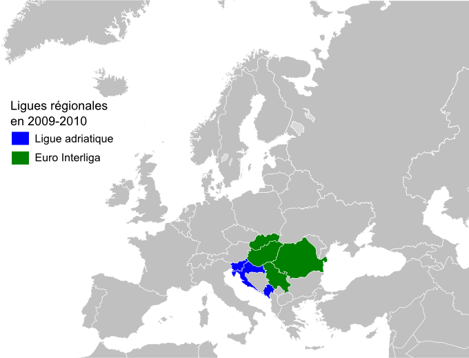 On a map of Europe, the water polo regional leagues during season 2009-2010. Key in French.